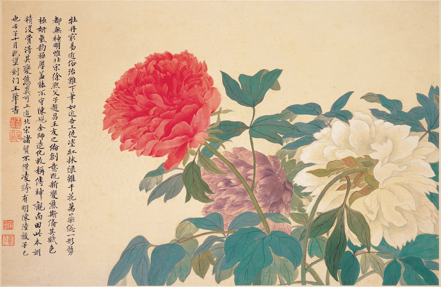 A painting of peonies by Chinese artist Yun Shouping, Qing Dynasty.